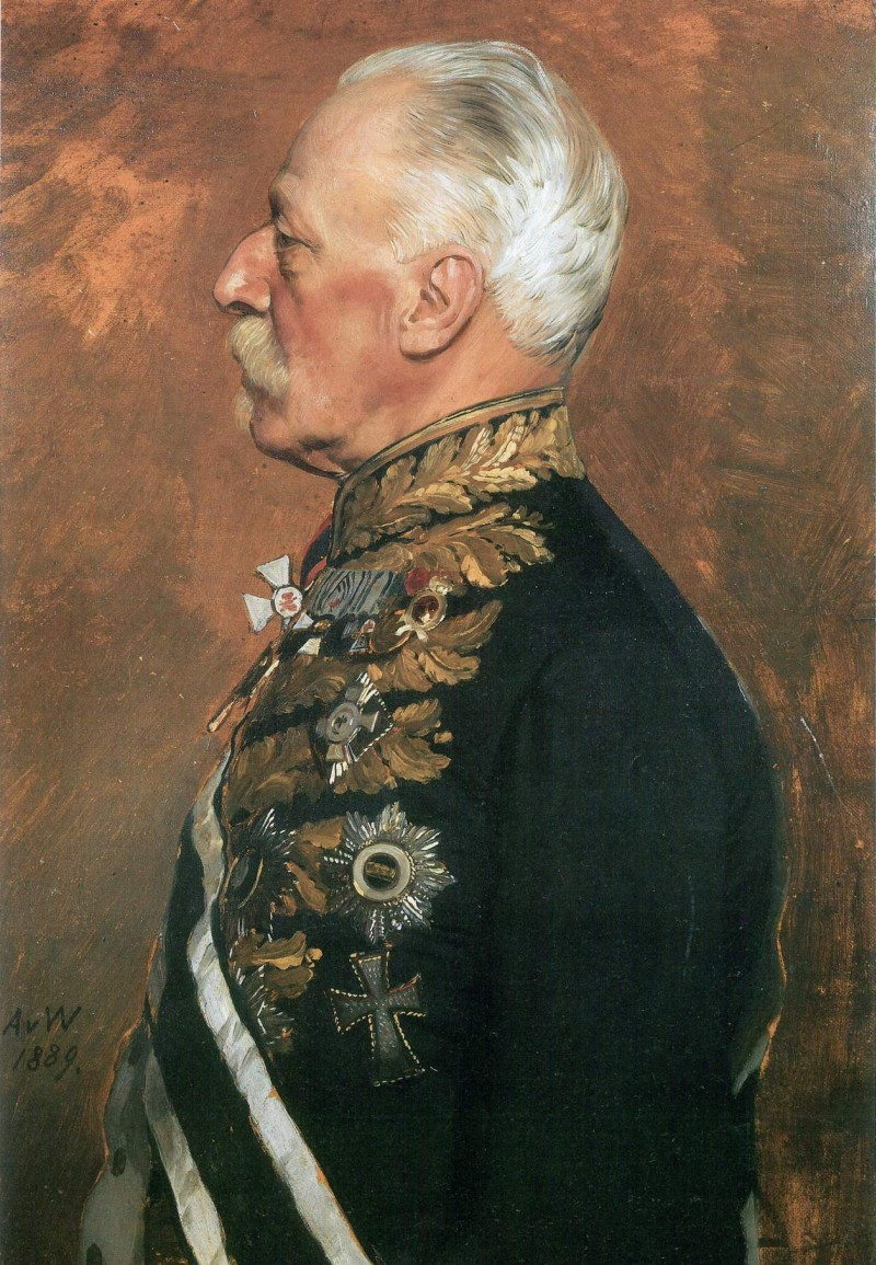 Study of Friedrich Krüger, envoy of Lübeck to the Prussian & Imperial Court in Berlin, by Anton von Werner 1889; the study is for his monumental painting Die Eröffnung des Reichstags im Weißen Saal des Berliner Schlosses durch Wilhelm II. (25. Juni 1888)